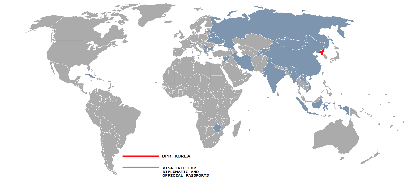 Visa policy of the Democratic People's Republic of Korea DPR Korea Visa-free for diplomatic and official passports